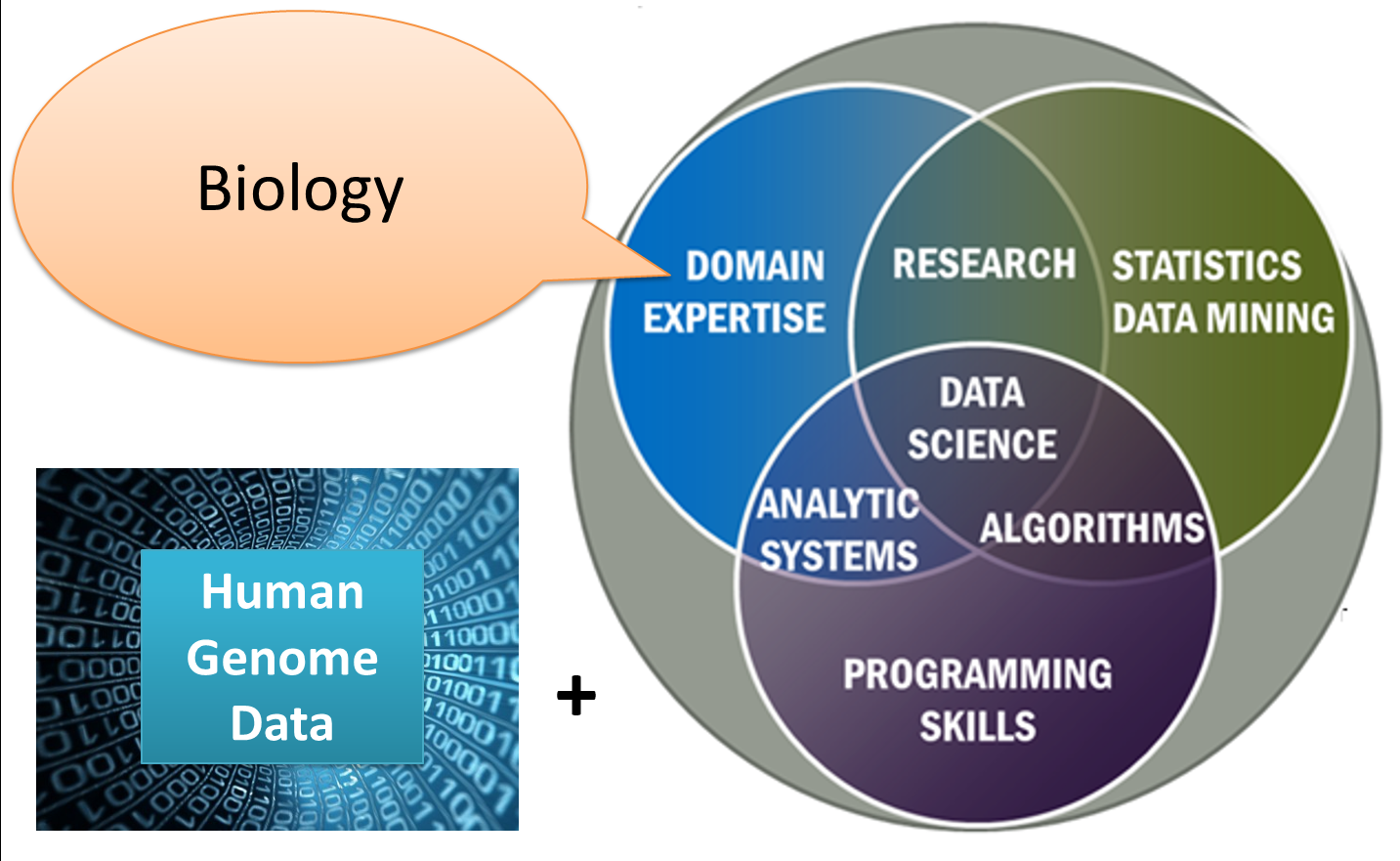 Bioinformatics. Adapted from the Data Science venn diagram (cite: NIST big data workgroup)